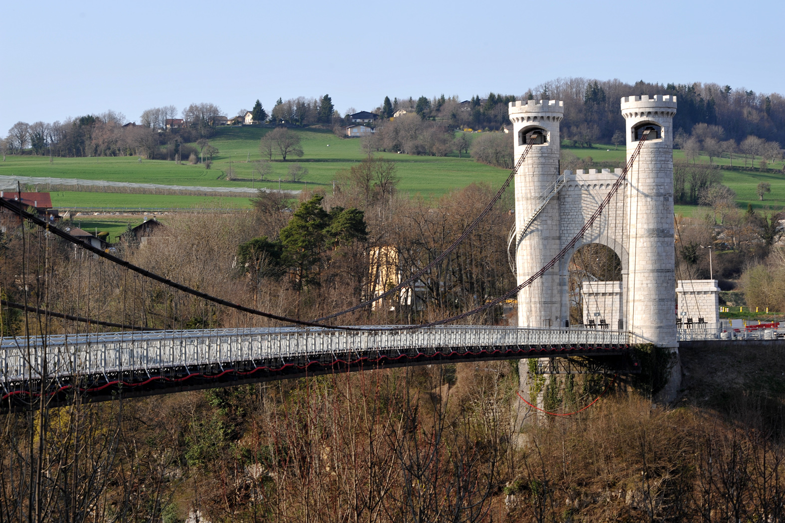 Charles-Albert bridge, also known as Caille bridge; Haute-Savoie, France.